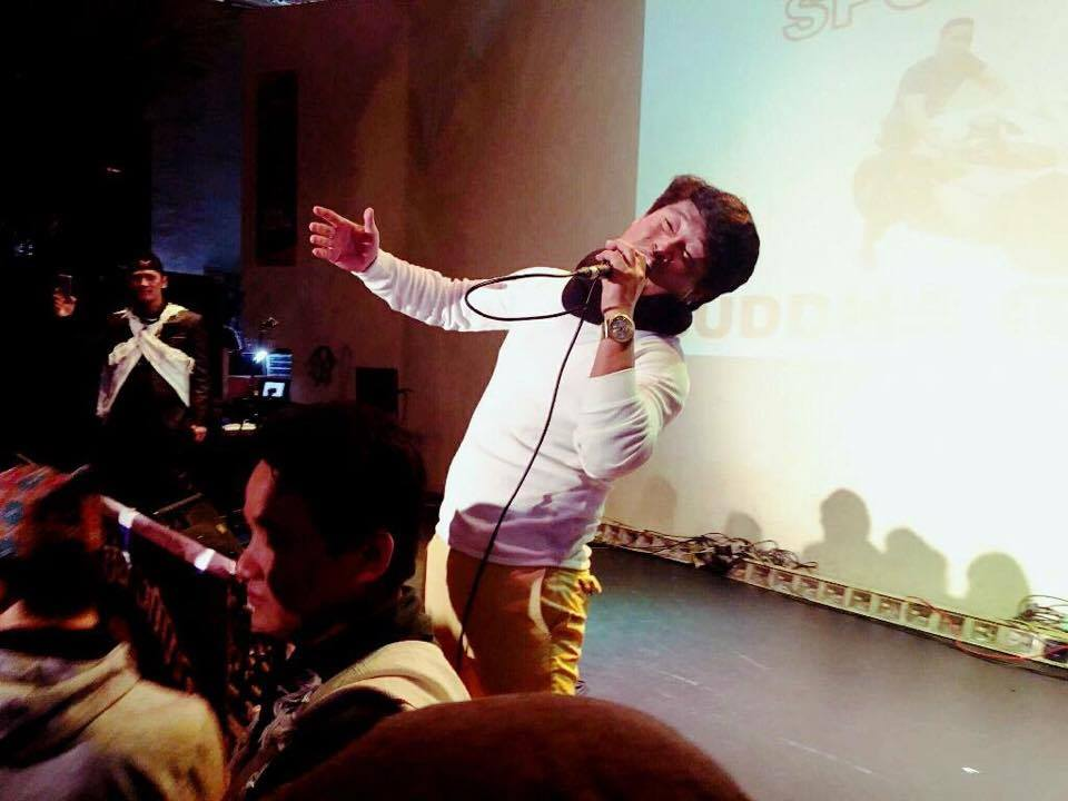 Tara Prakash Performing in a Concert in Japan in 2015